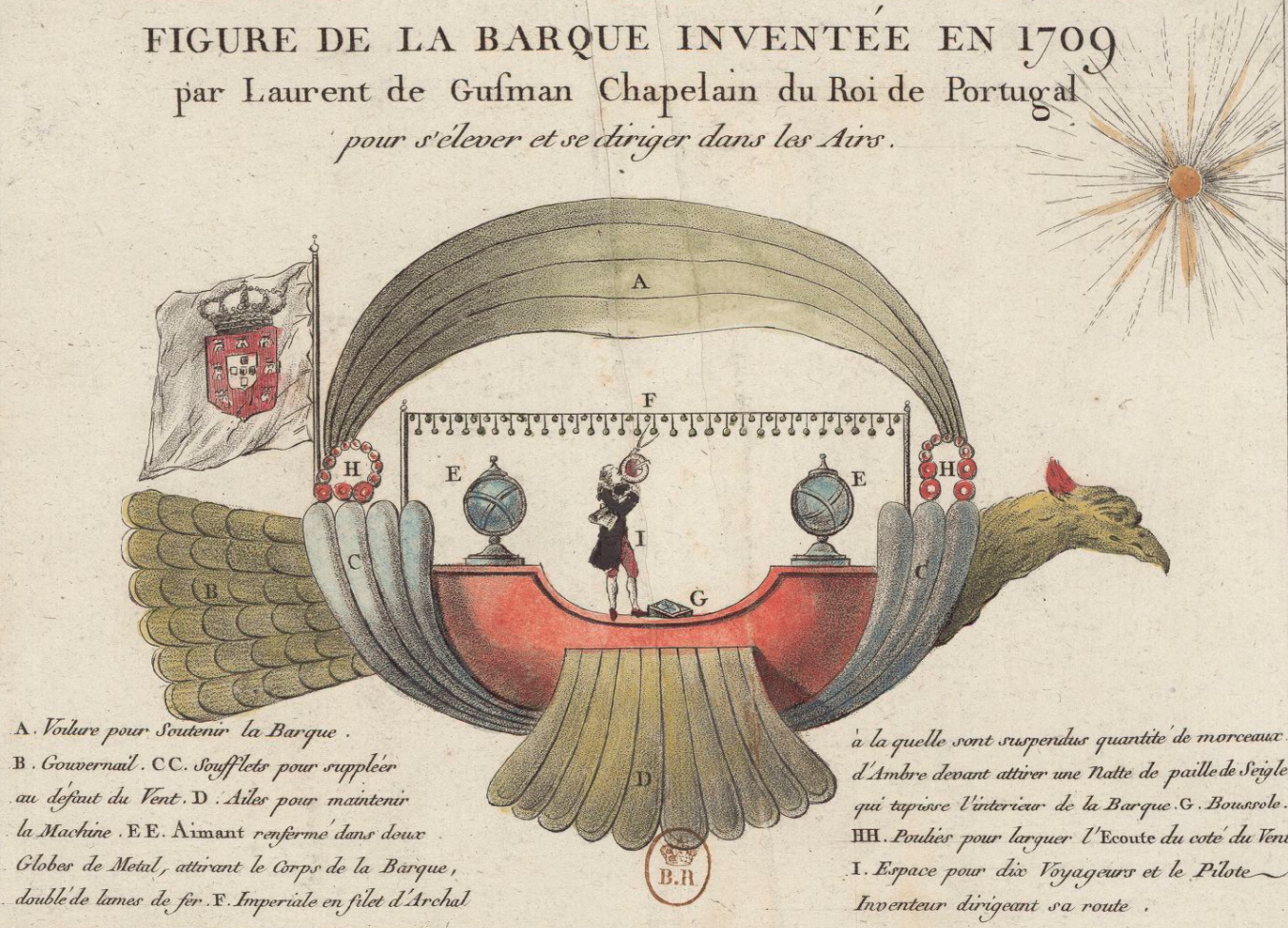 The "Passarola", a primitive airship devised by Father Bartholomew Lawrence of Gusmão.